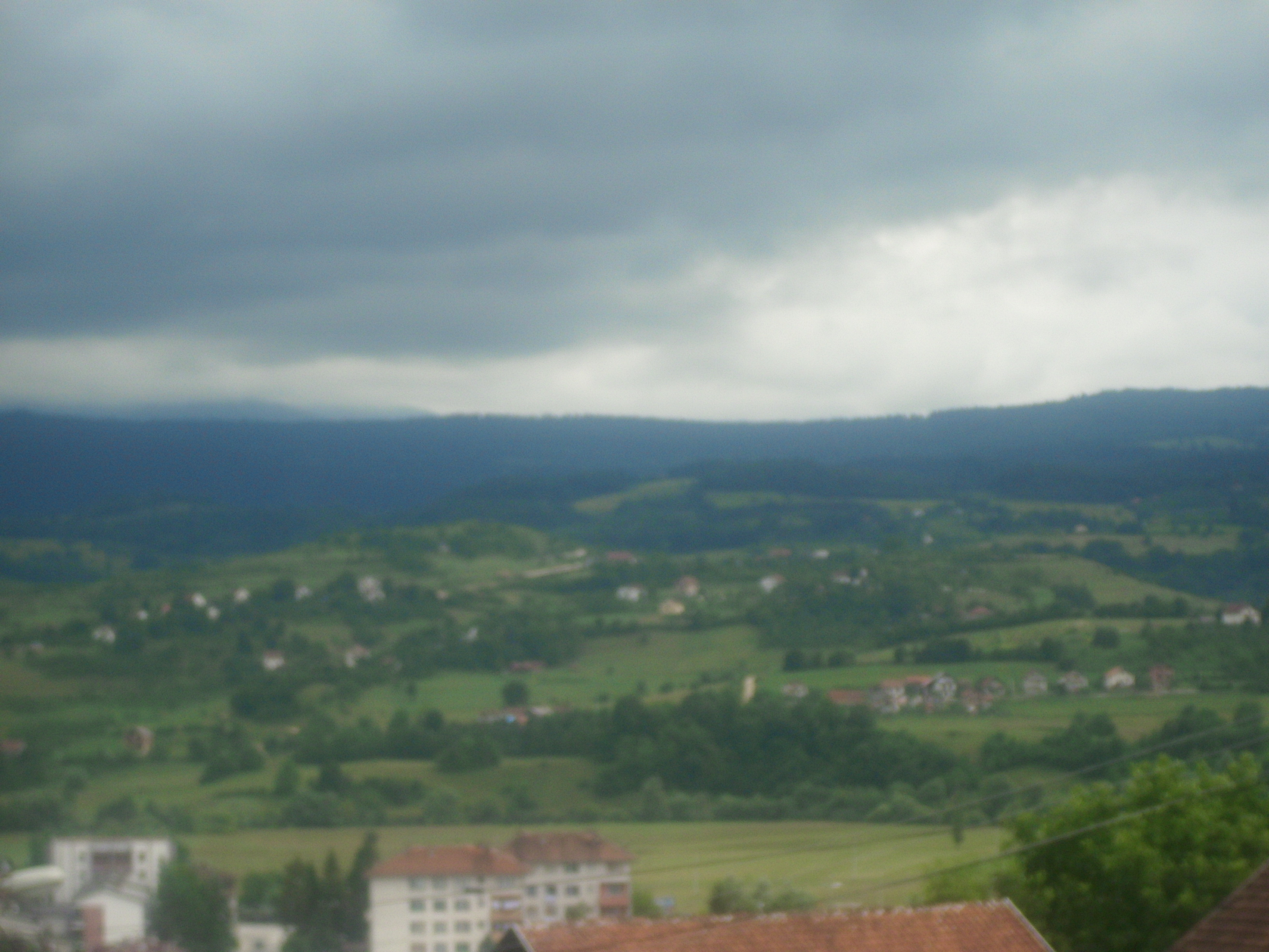 Čifluk village in Šipovo municipality